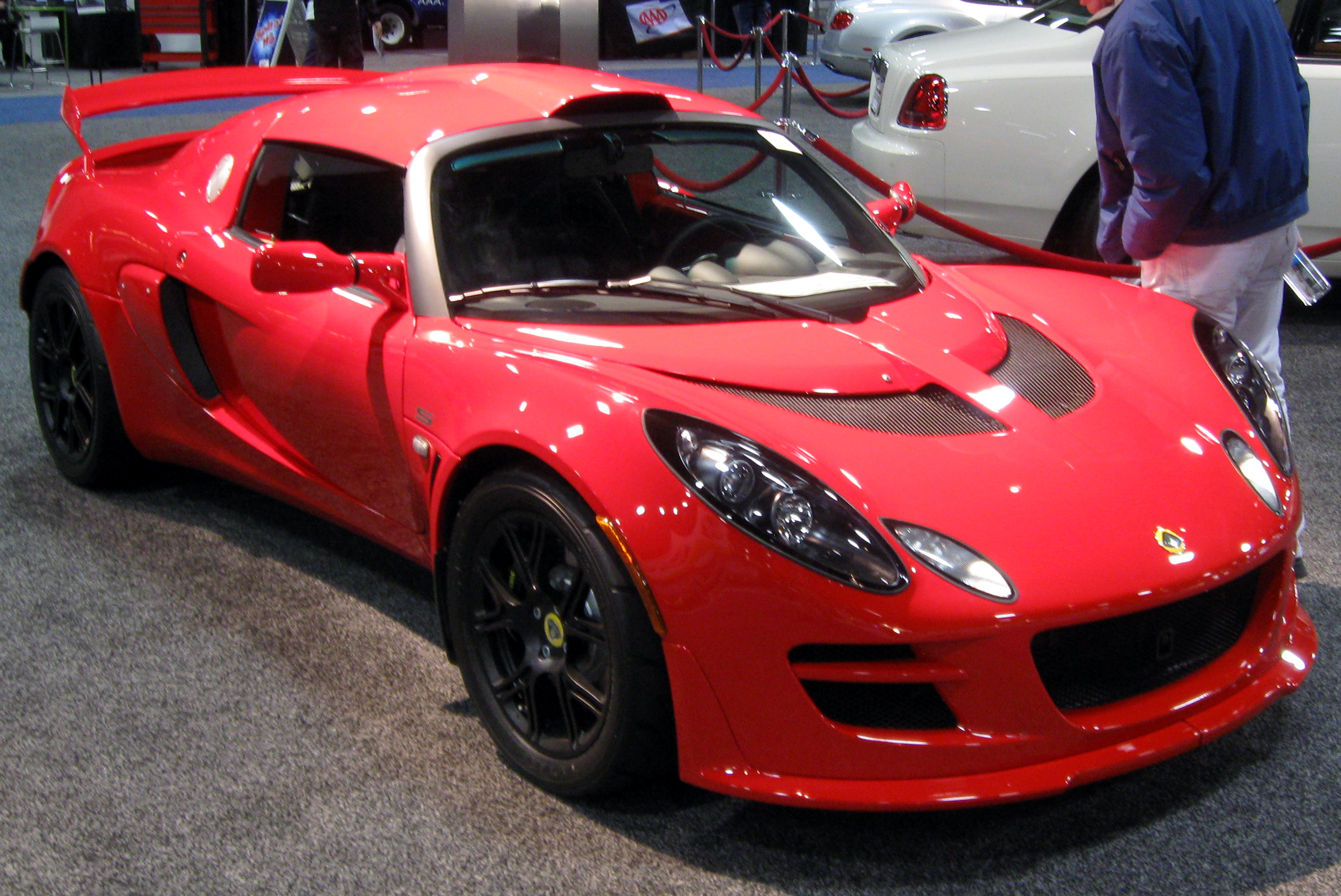 2011 Lotus Exige photographed in Washington, D.C., USA.